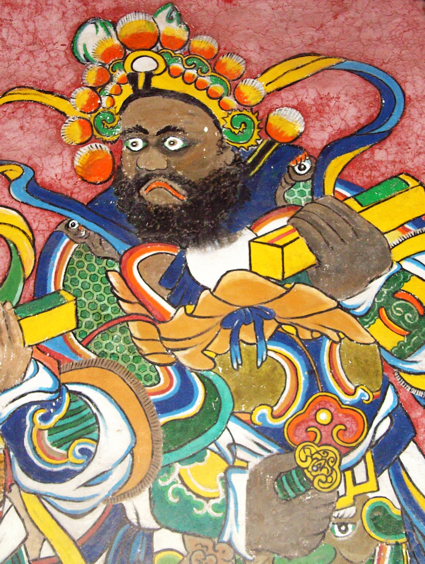 The Fengdu Ghost City, China.